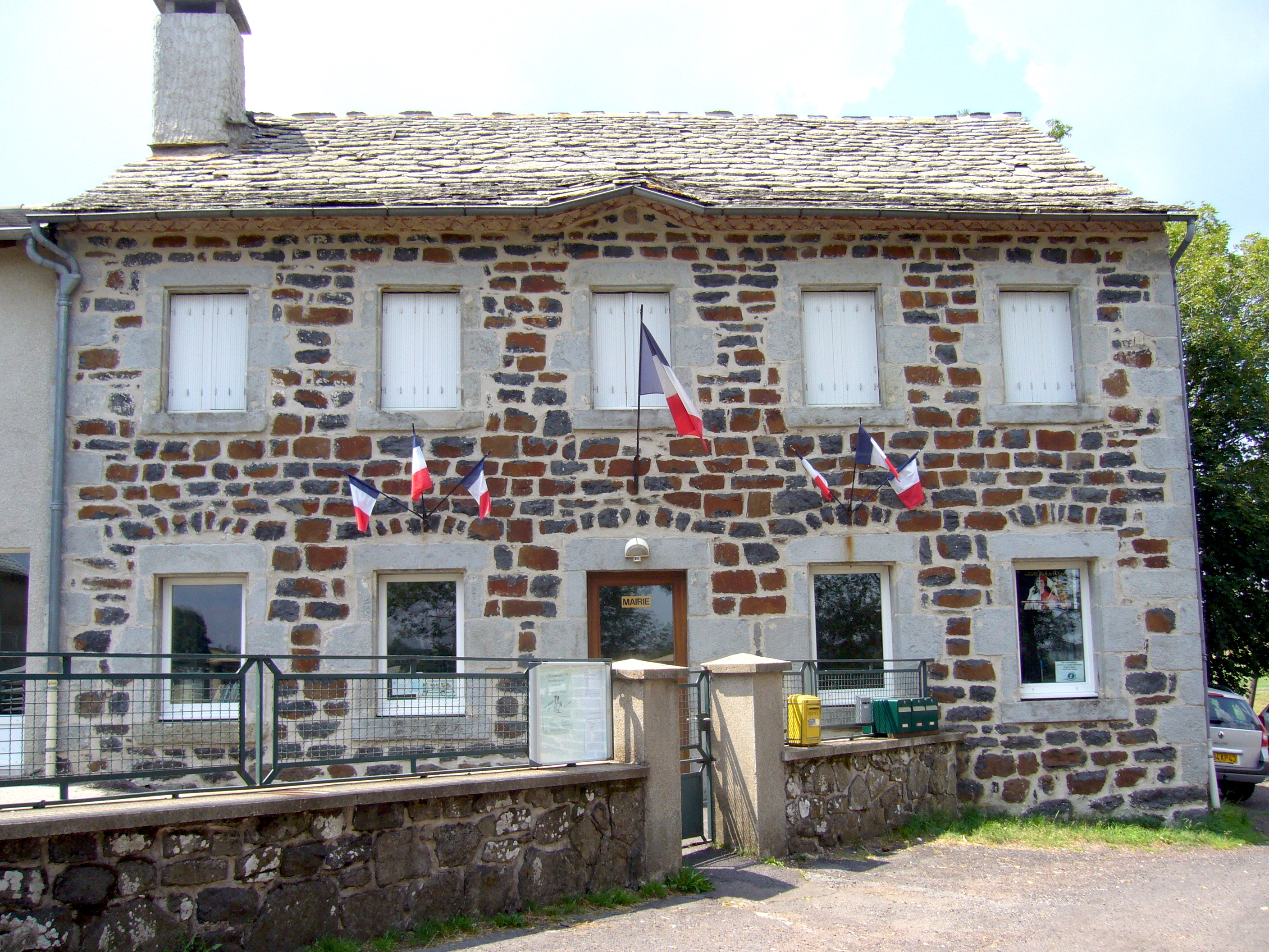 The town hall of Les Vastres (Haute-Loire, France). July 2006